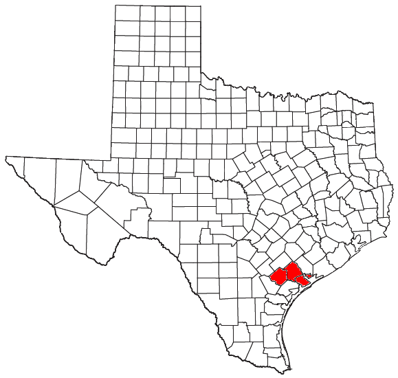 Locator map of the Victoria Metropolitan Statistical Area in the southeastern part of the U.S. state of Texas.